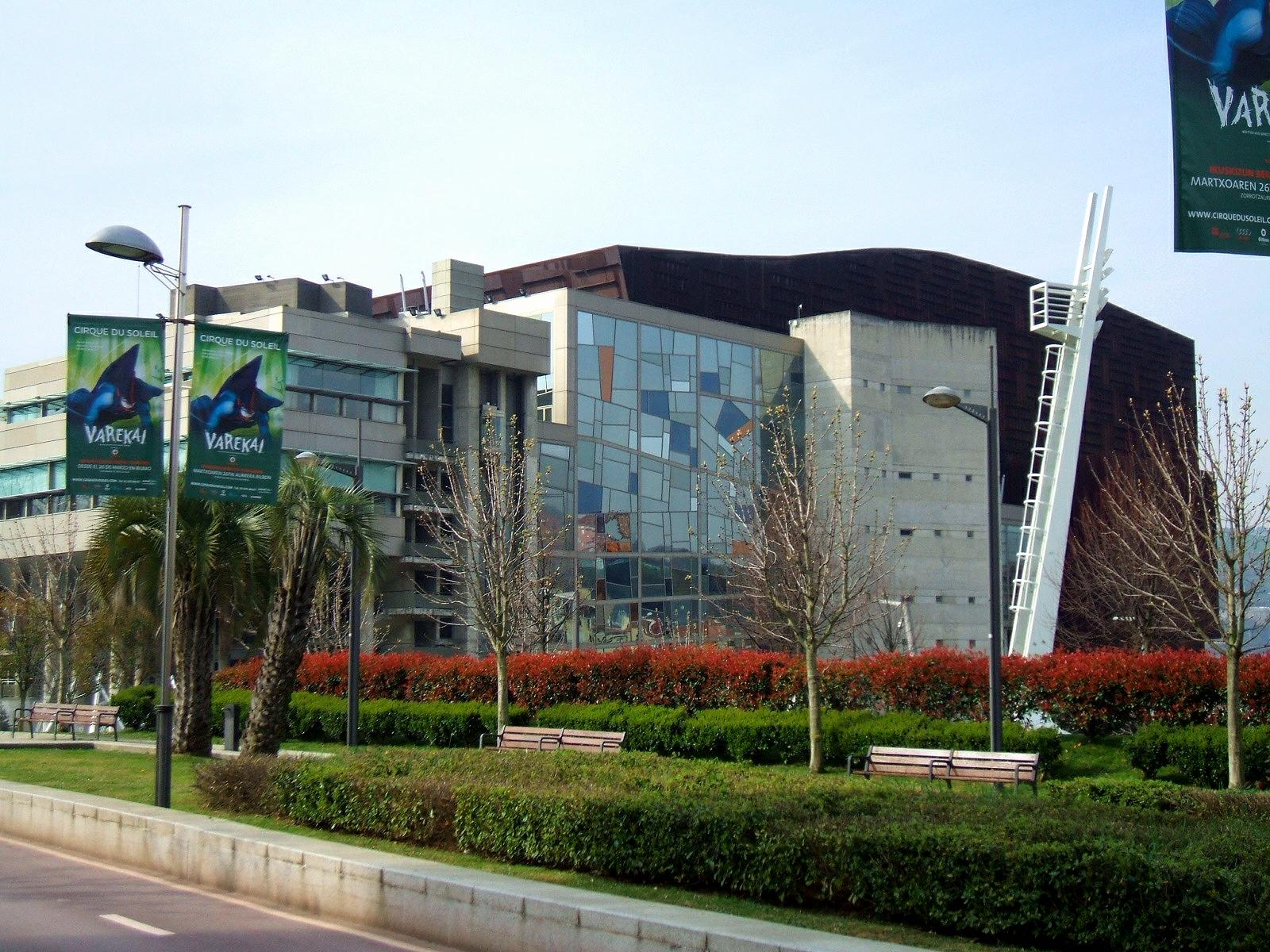 Palacio Euskalduna de Bilbao (País Vasco, España)